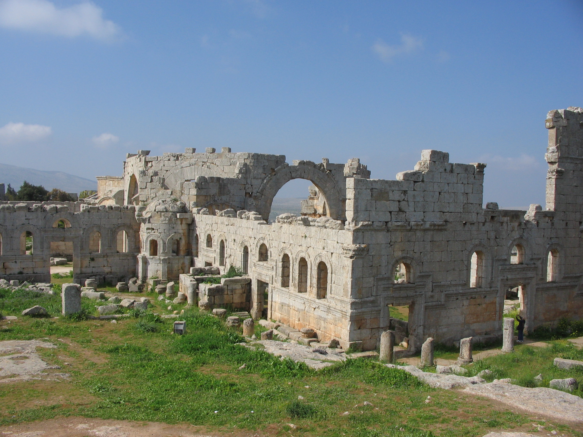 Church of Saint Simeon Stylites, Qalʿat Simʿān in 2006